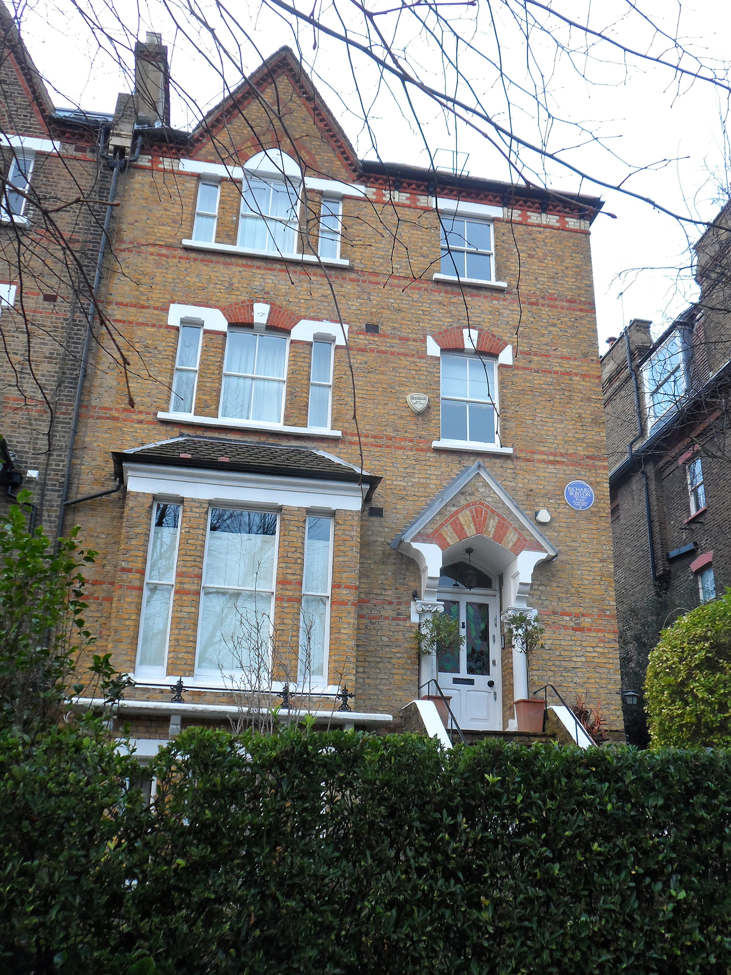 Richard Burton 1925-1984 Actor lived here - 6 Lyndhurst Road Hampstead NW3